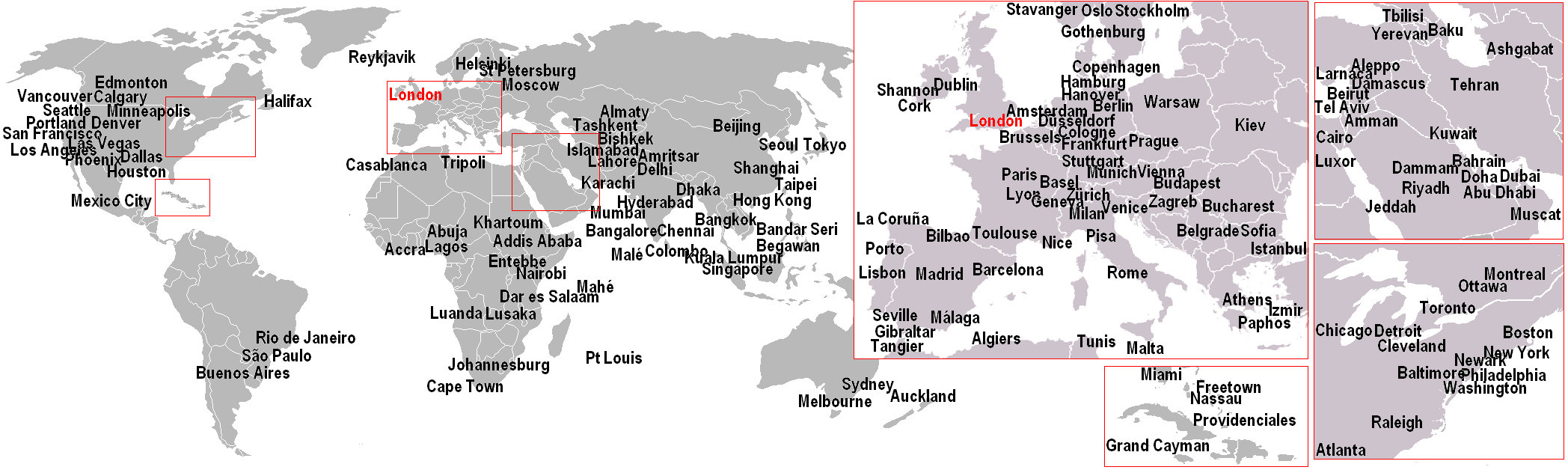 Cities with direct international airlinks with LHR